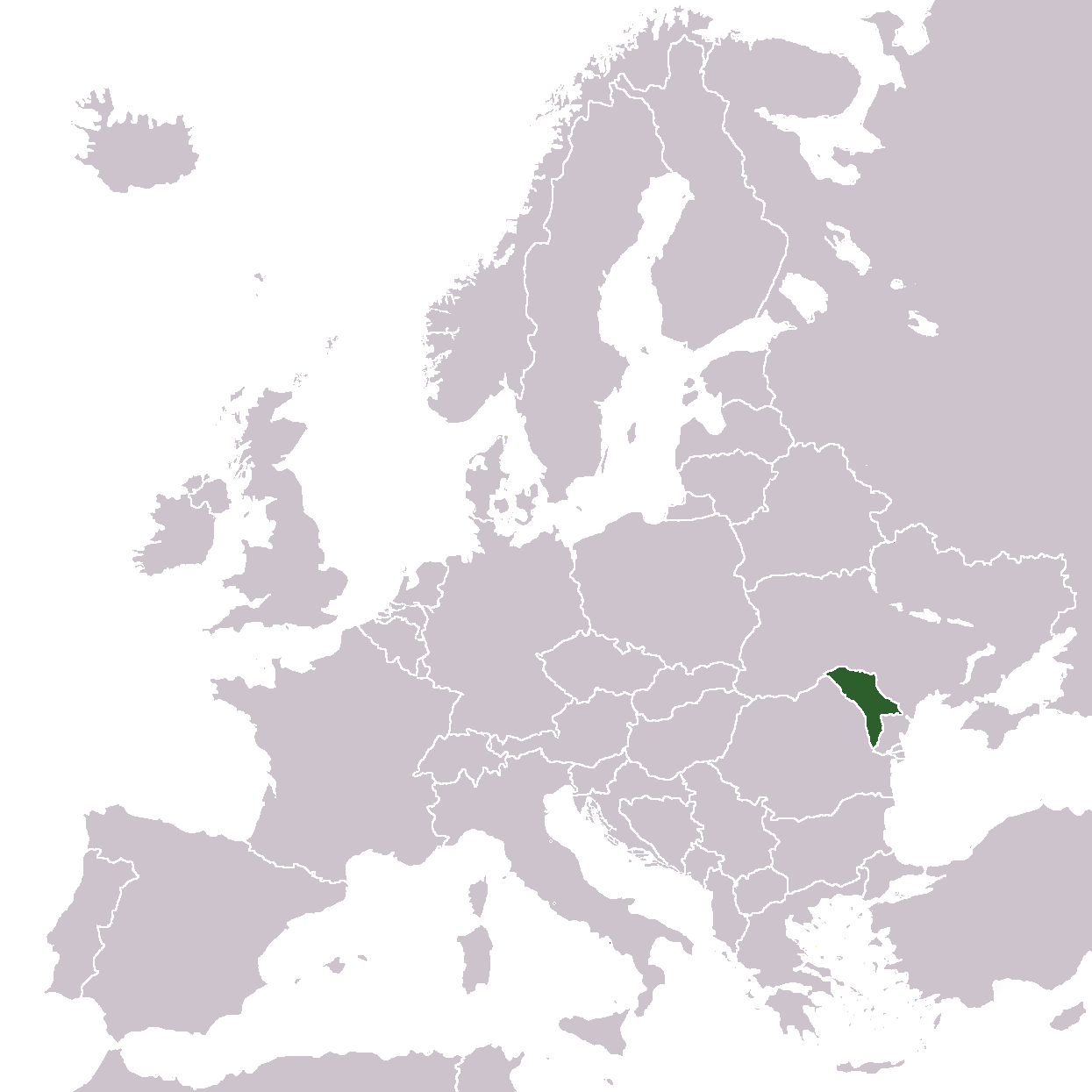 Location of Moldova in Europe